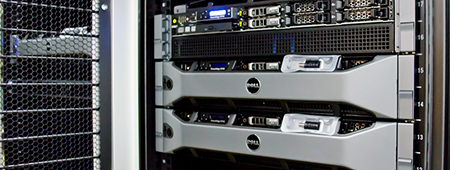 GIKI's Data Center